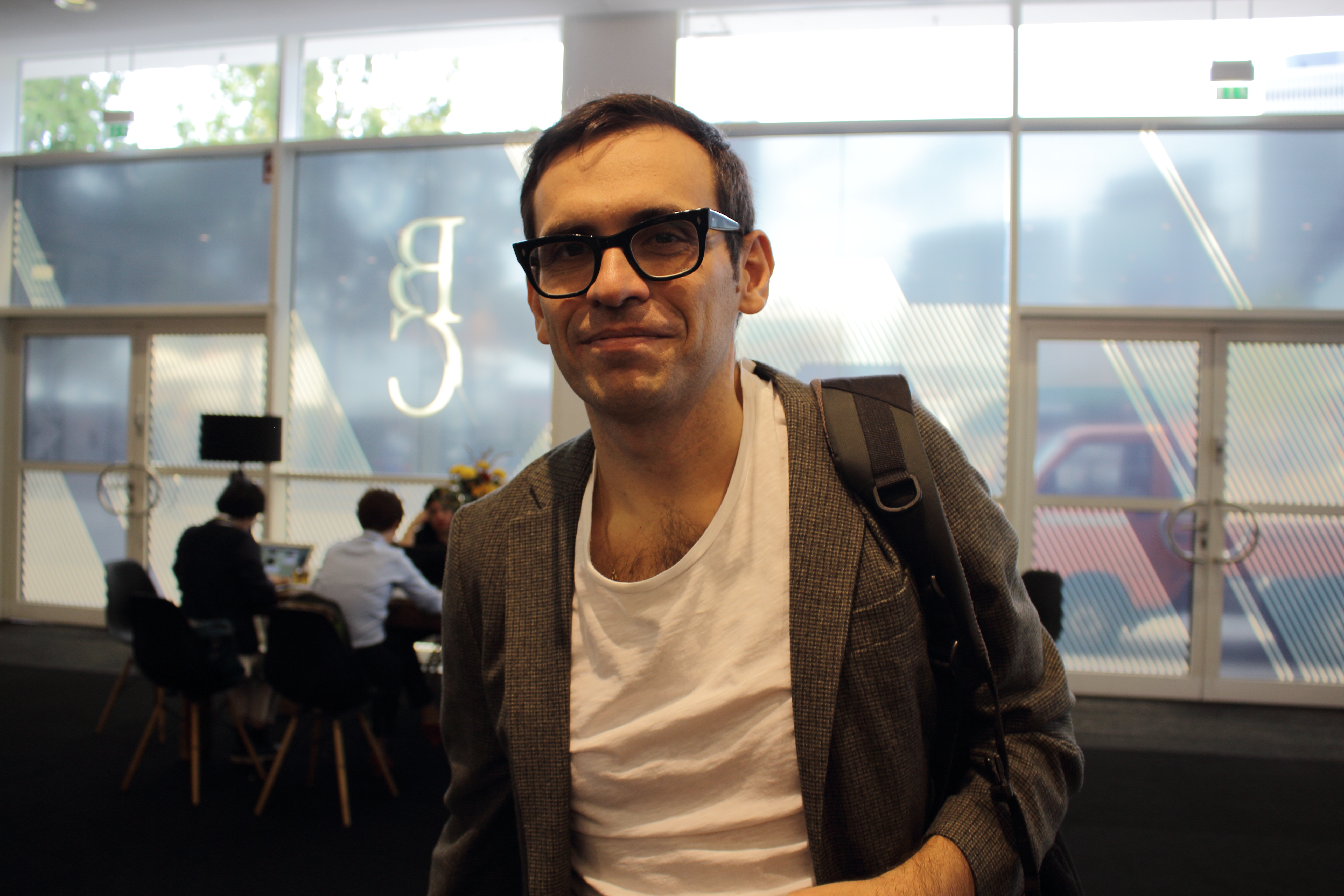 Nicola Lagioia - Frankfurt Book Fair 2016